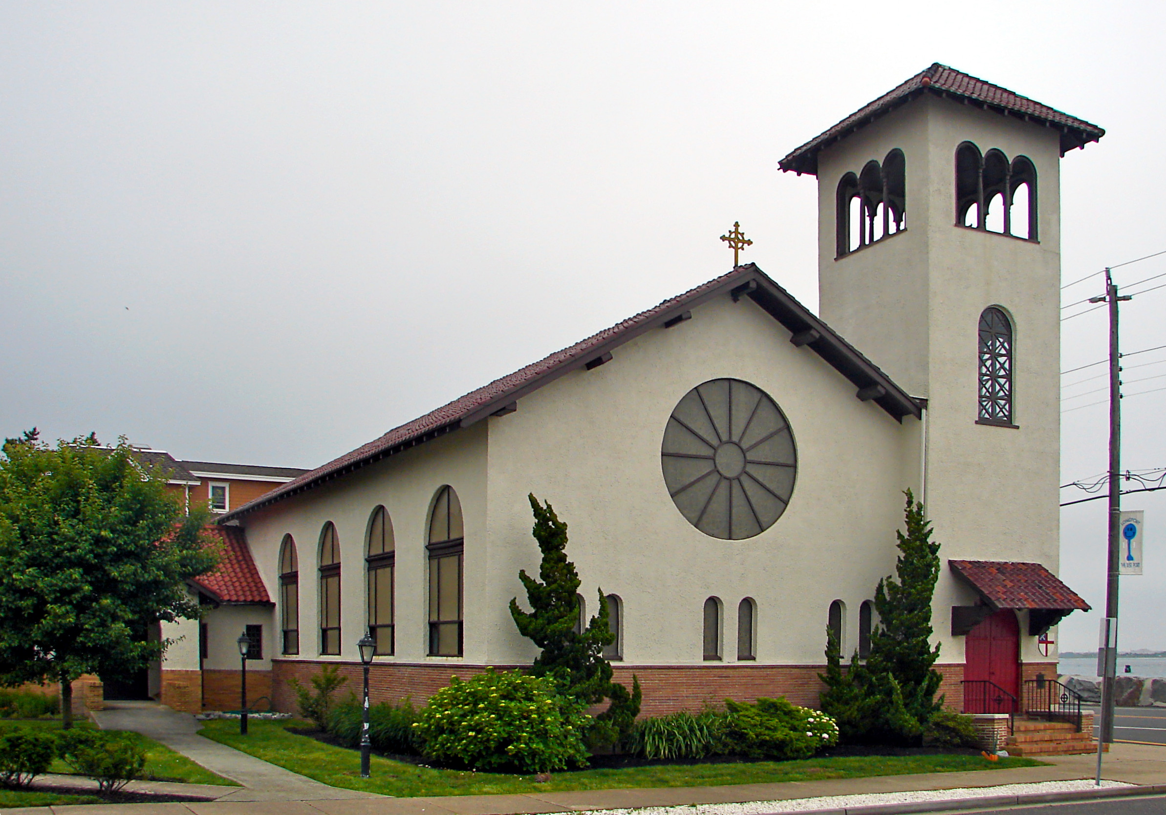 Church of the Redeemer on the NRHP since September 10, 1992, at corner of 20th and Atlantic Aves., Longport, New Jersey, south of - on the same island as - Atlantic City, New Jersey.